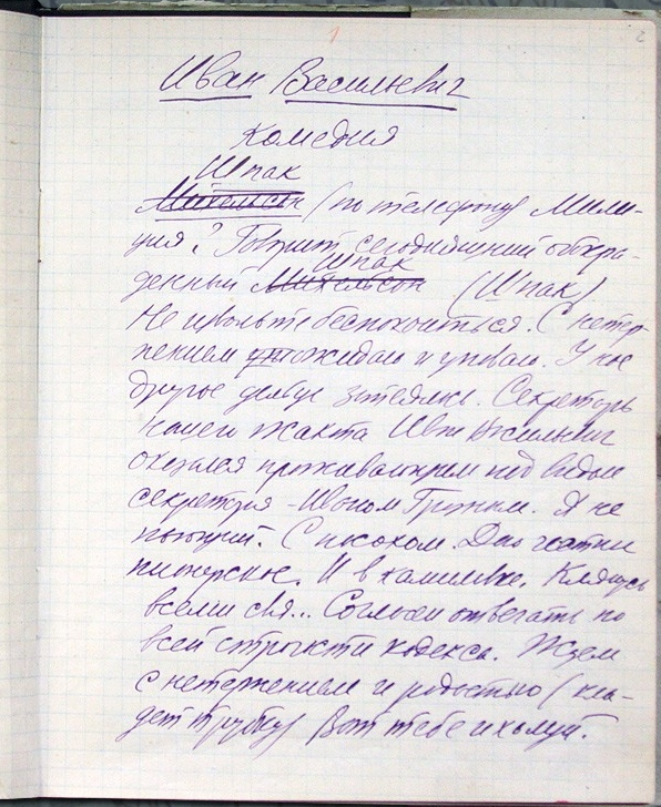 Ivan Vasilievich by Mikhail Bulgakov,the 1st page of the draft manuscript